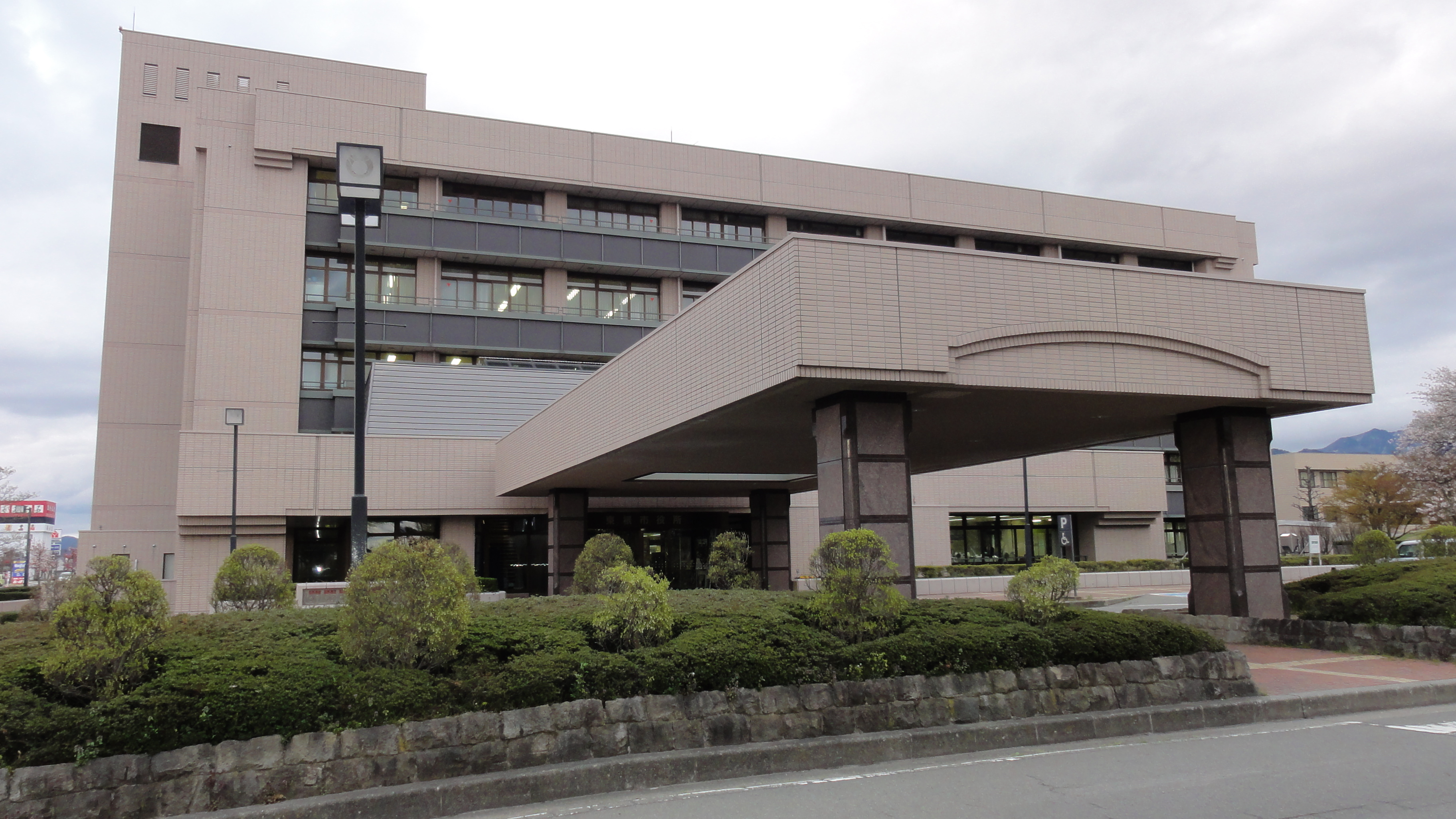 Higashine city office,Yamagata prefecture,Japan